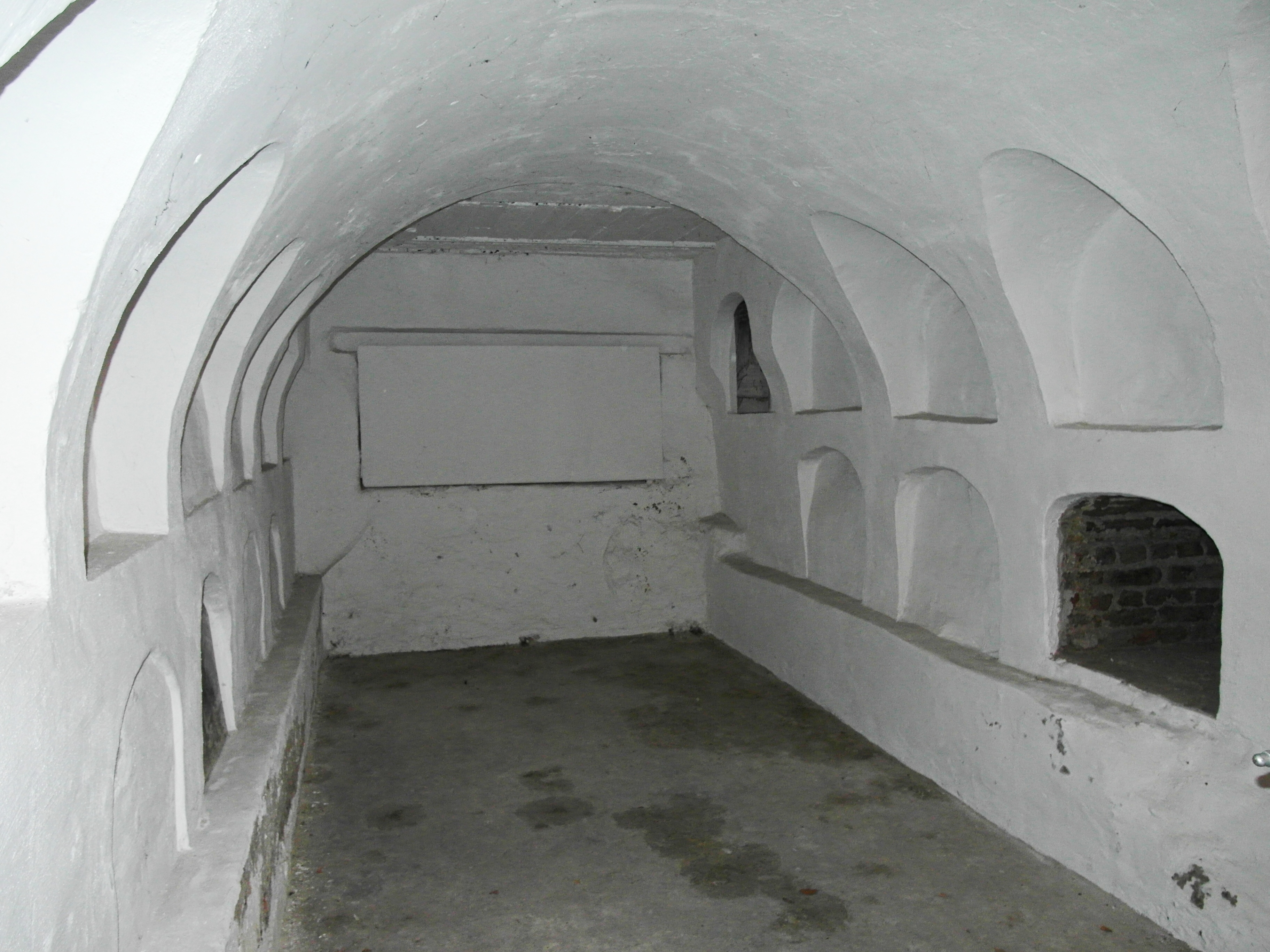 Tomb chamber below the former abbey church St John Baptist in Aachen-Burtscheid, Germany